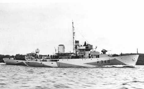 HMCS Whitby- Flower class corvette (Revised).